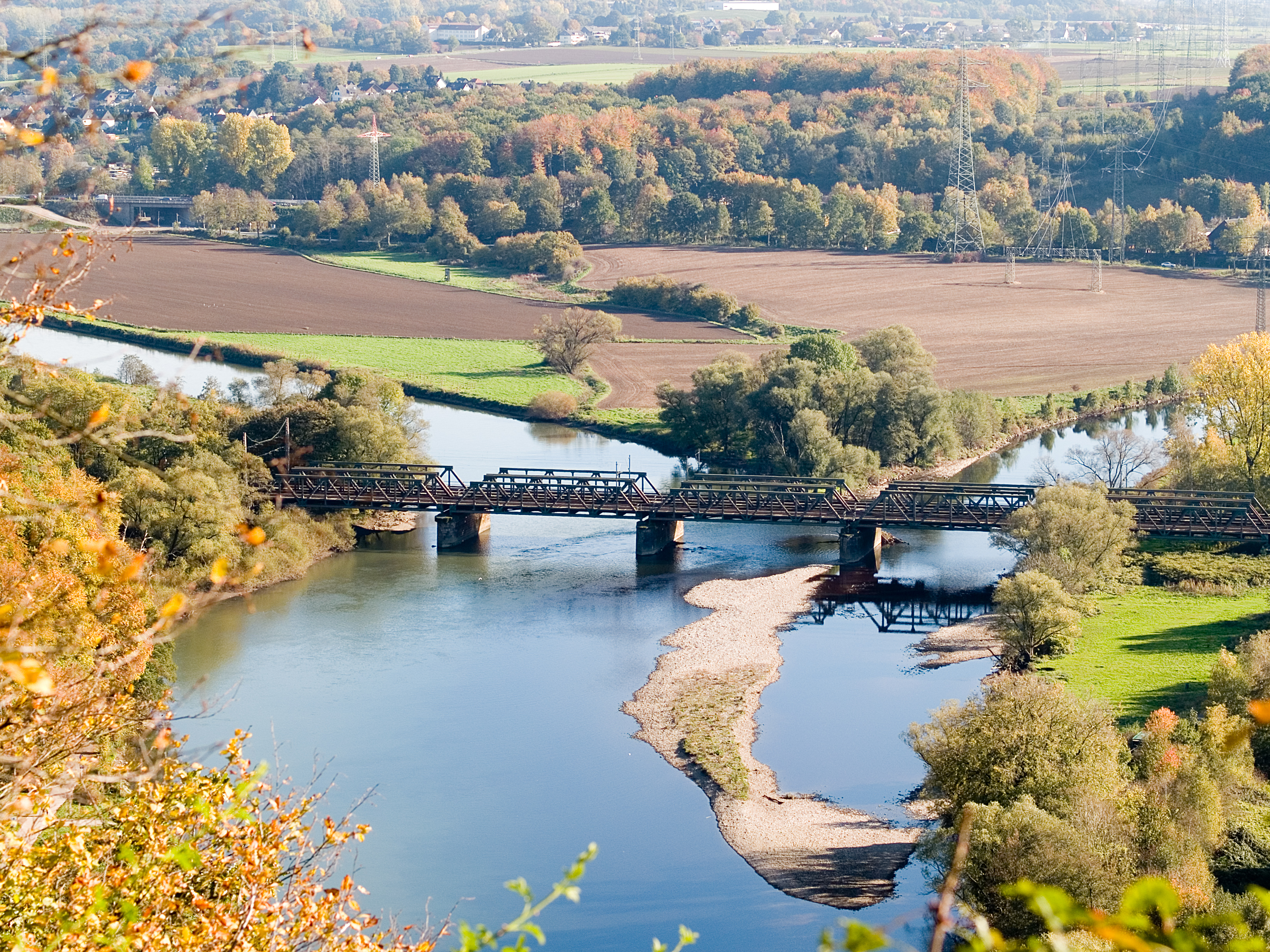 The mouth of Lenne river (right) into the Ruhr (from left), in autumn colours, seen from Hohensyburg, Germany